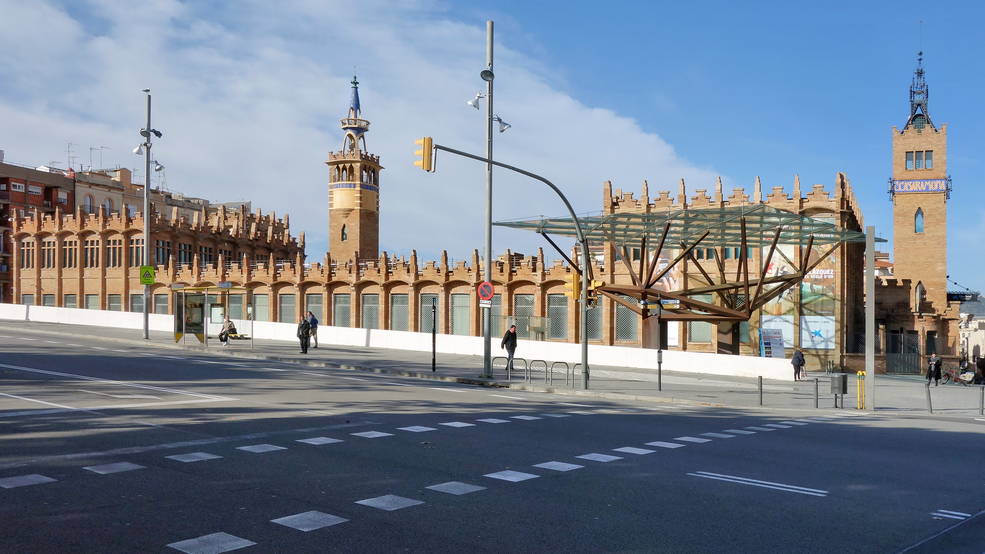 Former textile factory C. Casaramona, Architect Josep Puig i Cadafalch, Barcelona 1913. Today site of the CaixaForum.